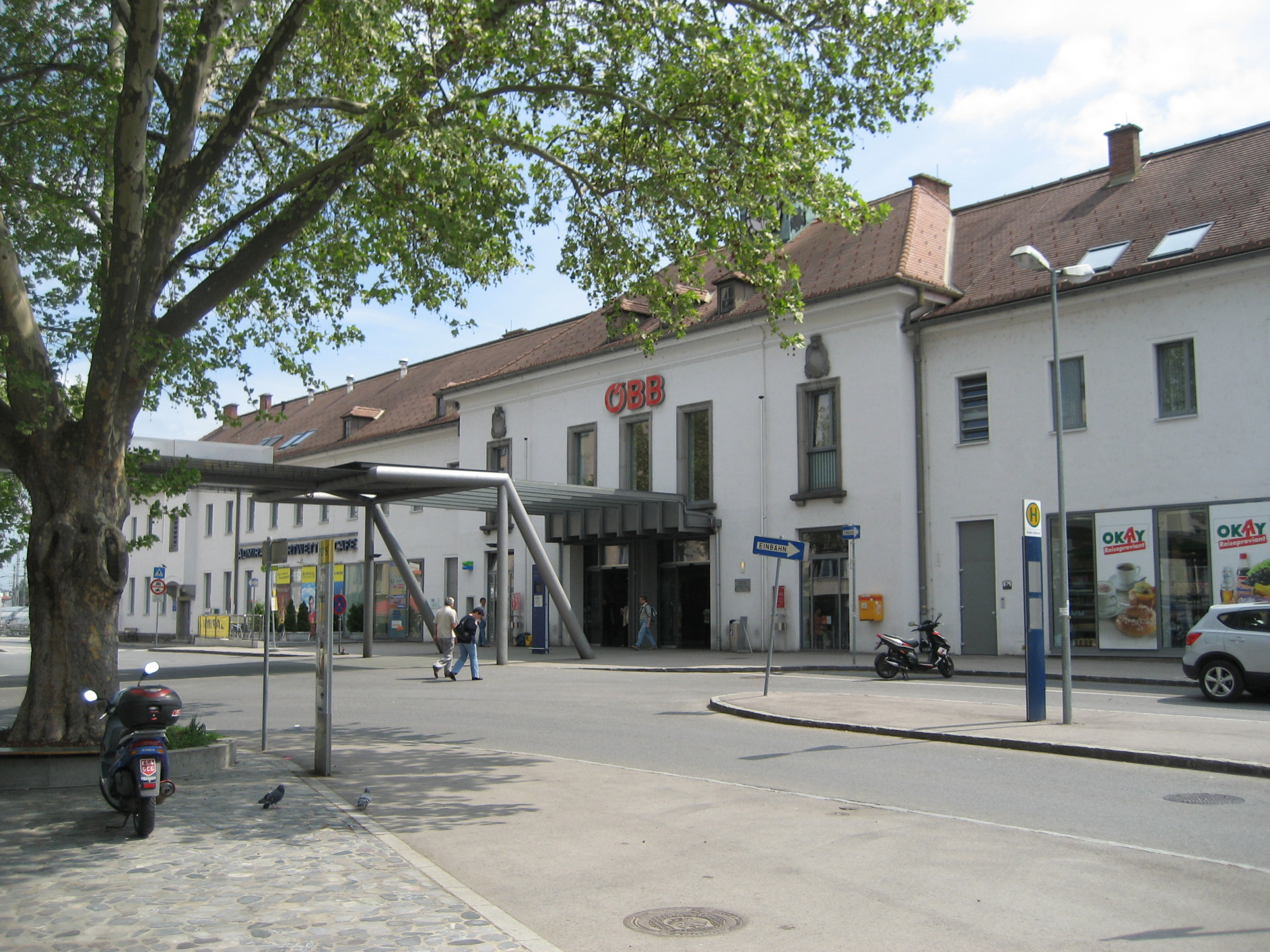 train station Krems an der Donau in Lower Austria